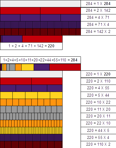 Showing, through rods, that (220, 284) are amicable numbers.